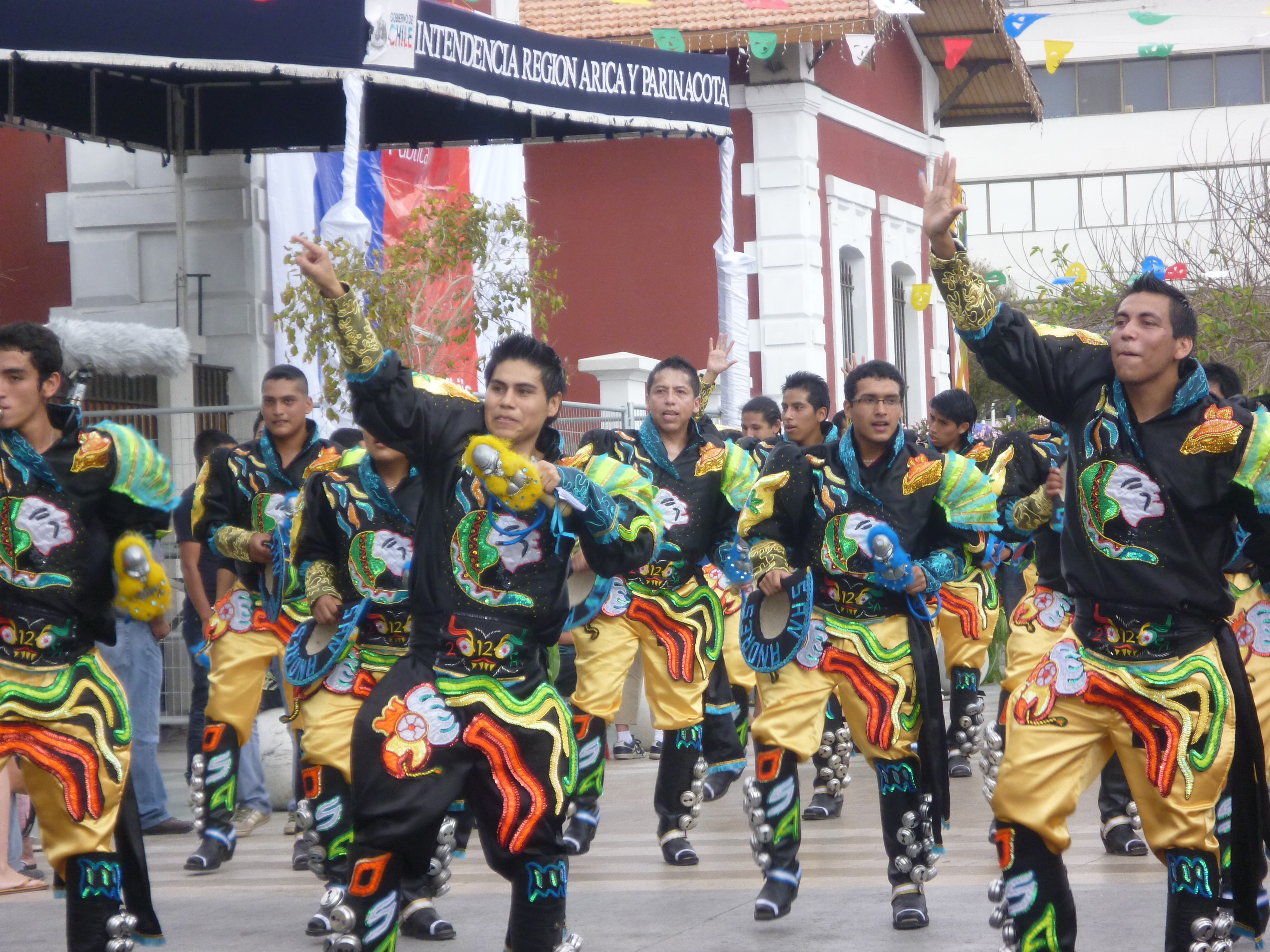 Carnaval Andino con la Fuerza del Sol Inti Ch'amampi 2012 Arica, Chile